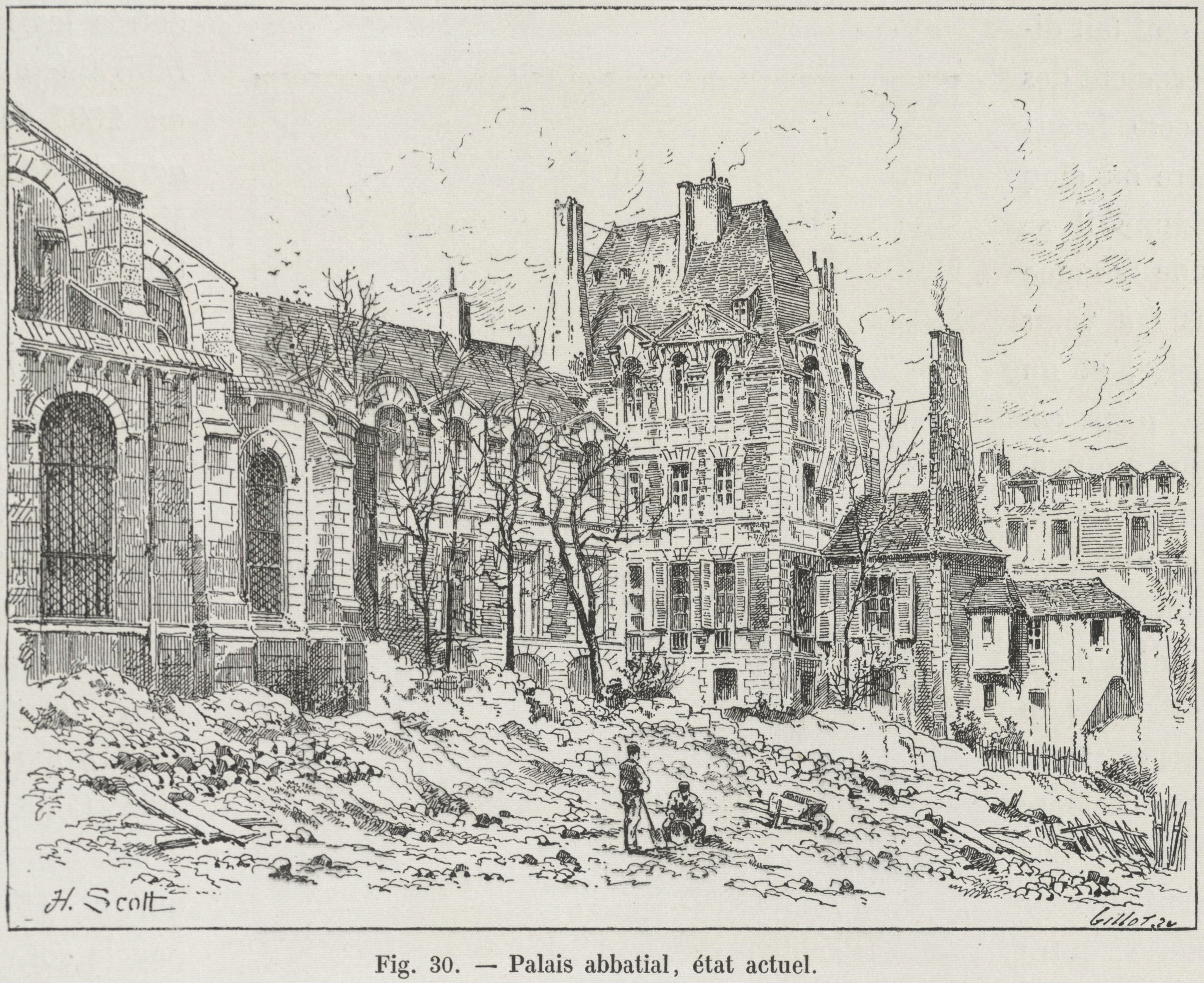 The abbatial palace, consisting of a hotel and pavilion, underwent various renovations throughout the nineteenth century, as did its immediate surroundings. It is located on the rue de l'Abbaye near the boulevard Saint-Germain.